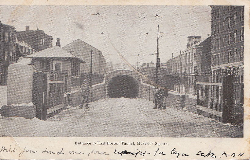 Early undivided back postcard of the incline at Maverick Square